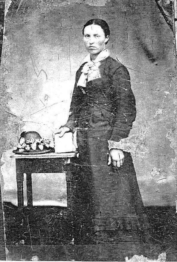 I inherited this photo of my ancestor from my mother, Blanche Eleanor Hill (née Pond) after she died in early 2014. I have rephotographed and edited it.